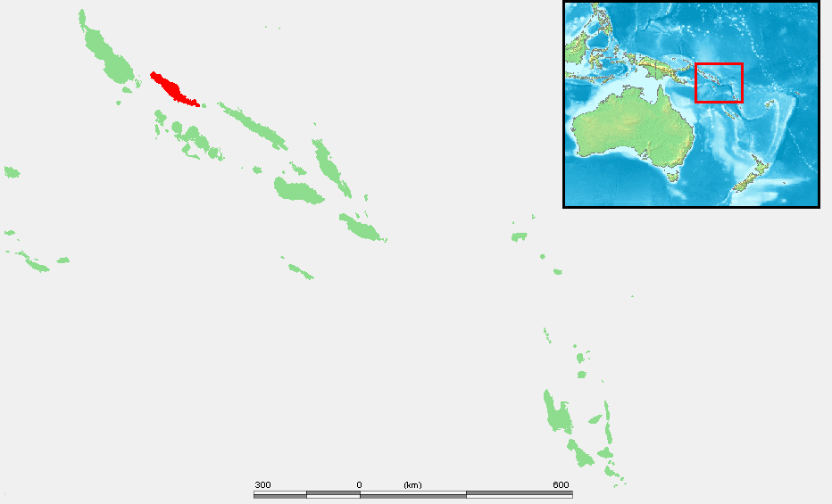 Island of Solomon Islands - Choiseul.PNG